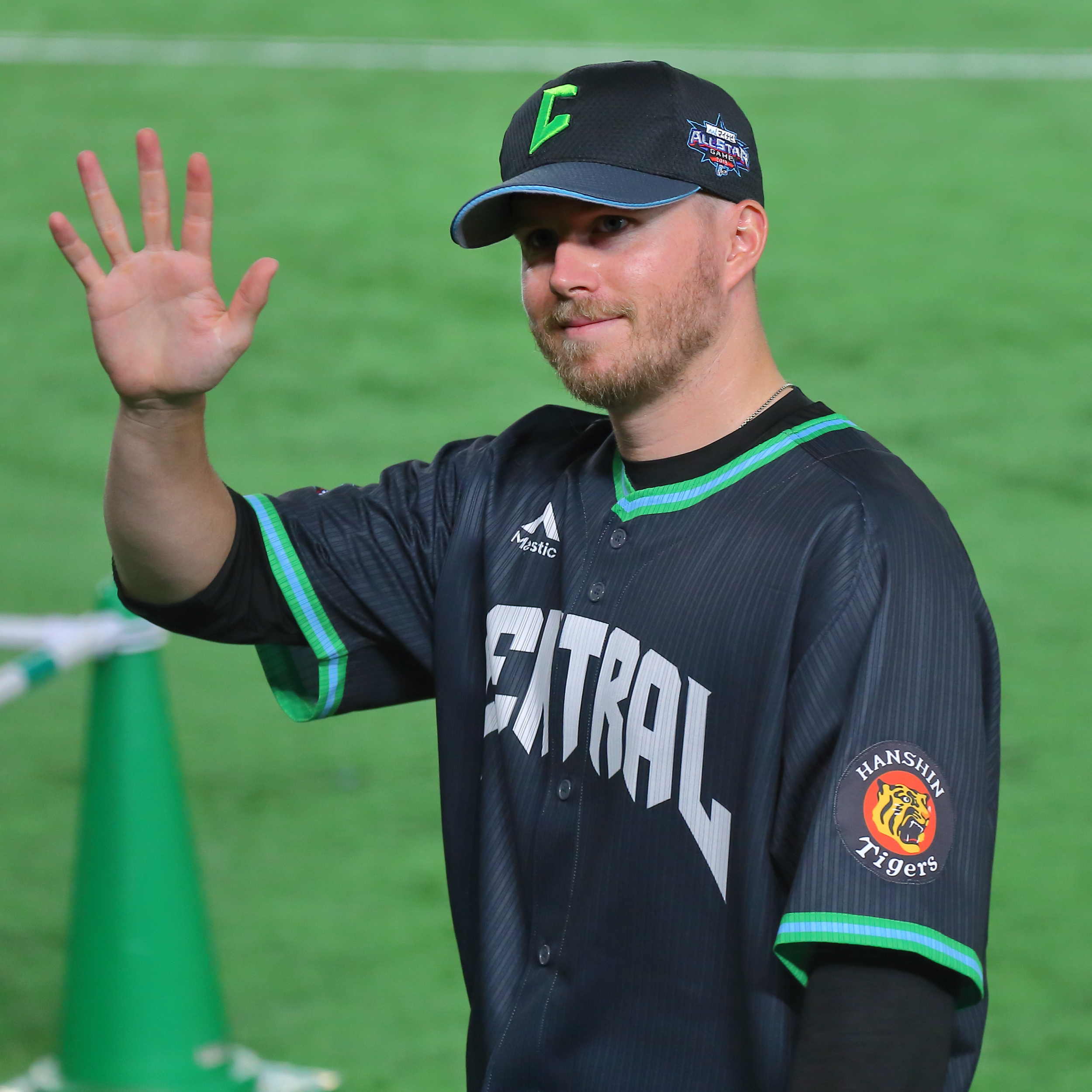 Hanshin Tigers pitcher Pierce Johnson in the 2019 All-Star game. Photo taken at the Tokyo Dome on July 12, 2019.